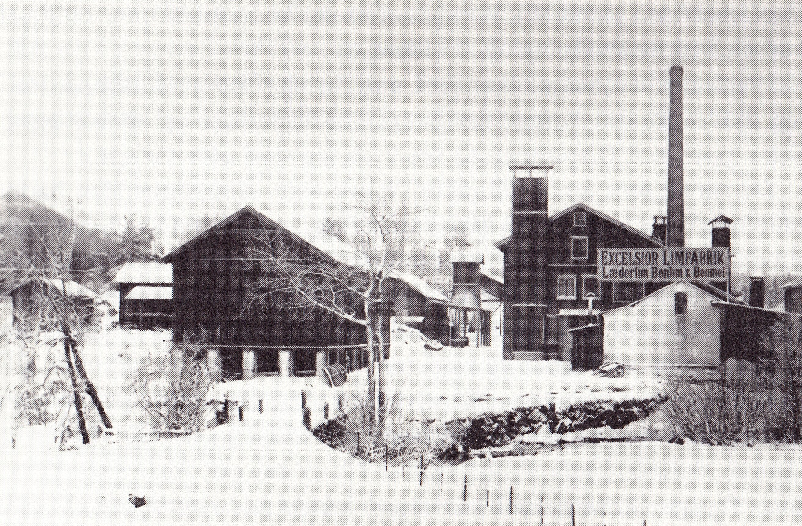 Excelsior limfabrikk in Lørenskog, where Gulbranssen worked 1908-1916.